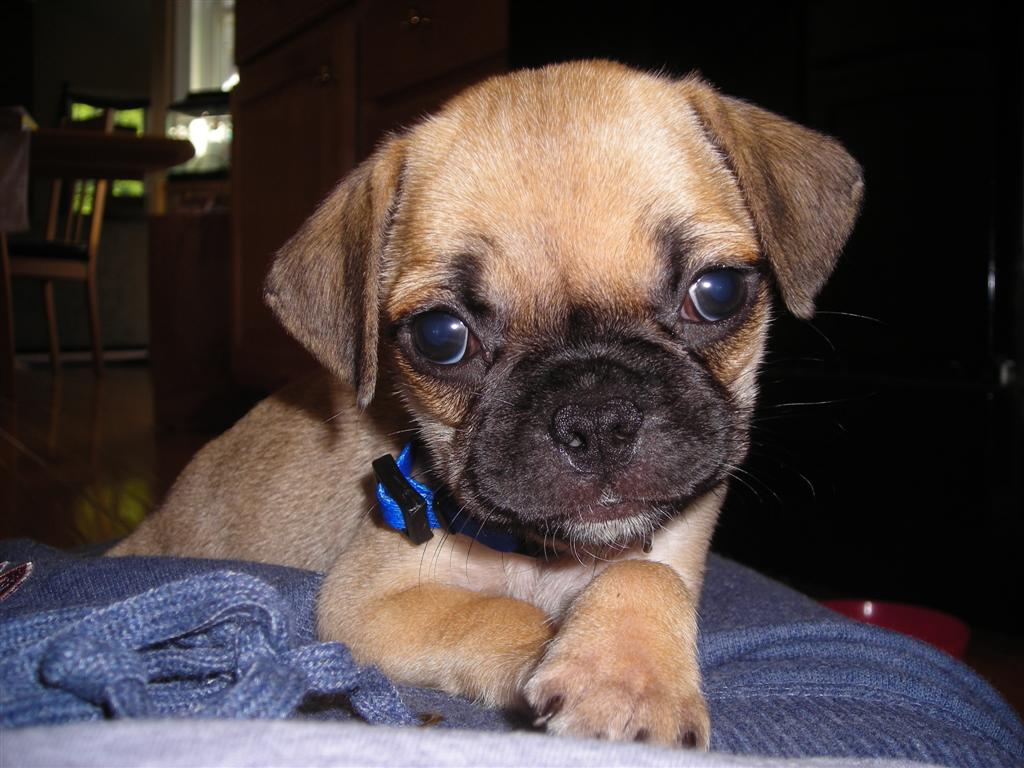 Fawn Puggle at 6 weeks